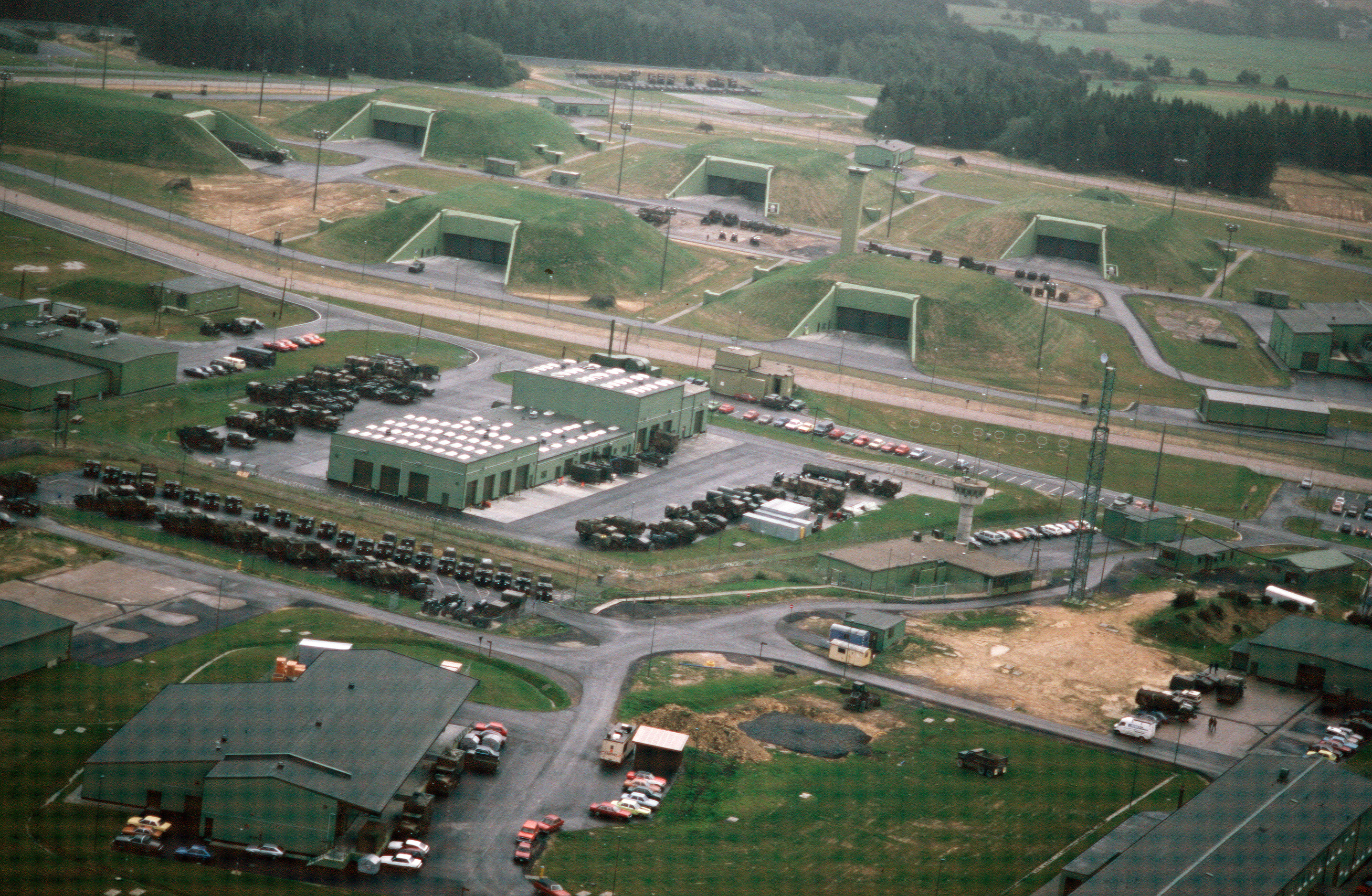 An aerial view of the ground launched cruise missile base at Wuescheim Air Station in West Germany, home of the 38th Tactical Missile Wing.